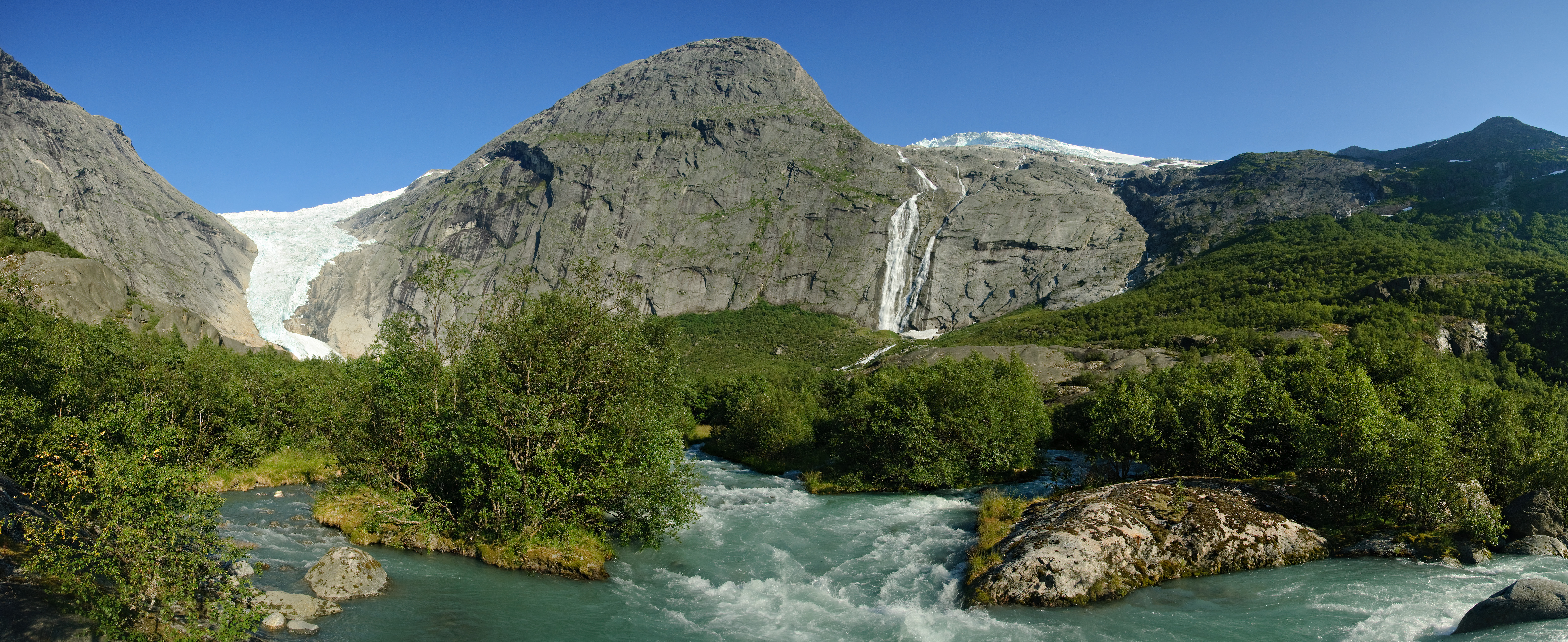 Panorama of the south-eastern part of the Briksdal valley in the municipality of Stryn in Sogn og Fjordane county, Norway. Notable features include the Briksdalsbreen glacier, a part of the Jostedalsbreen glacier, the largest in mainland Norway. The waterfall left of the centre of the picture is Tjøtafossen. Another part of the glacier can be seen above the waterfall. The river in the foreground is Briksdalselva.